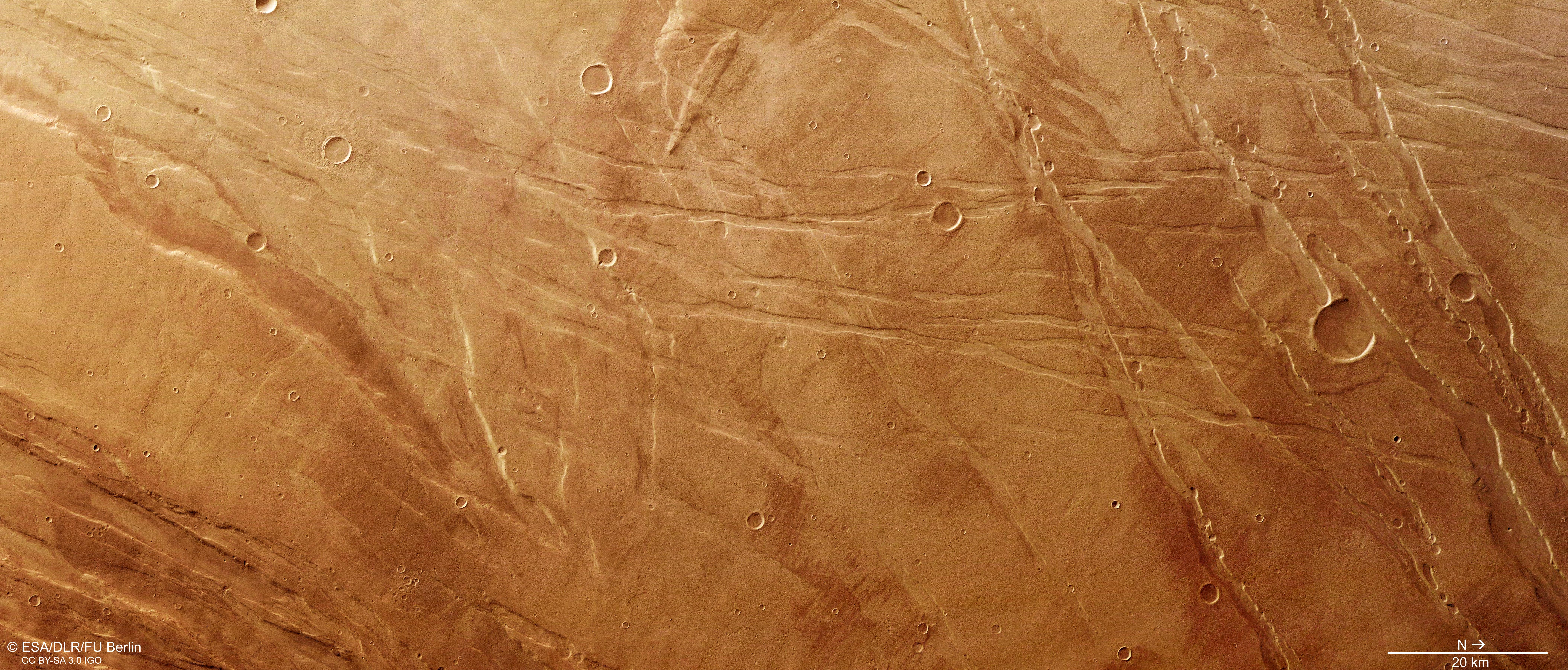 Tempe Fossae on Ascuris Planum on Mars photographed by Mars Express.